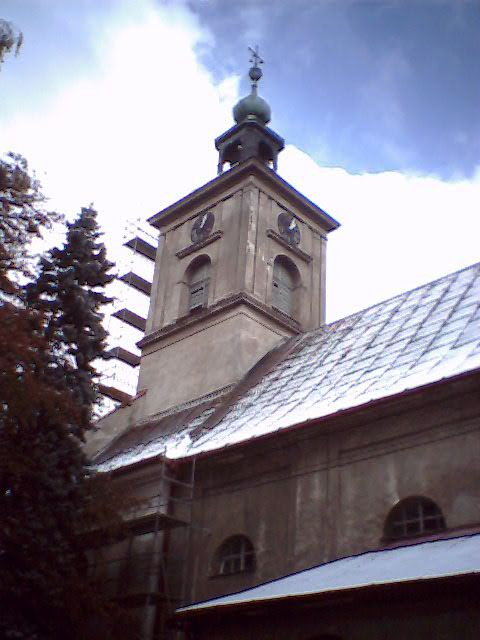 Lutheran Church in Komorní Lhotka, Frýdek-Místek District, Czech Republic